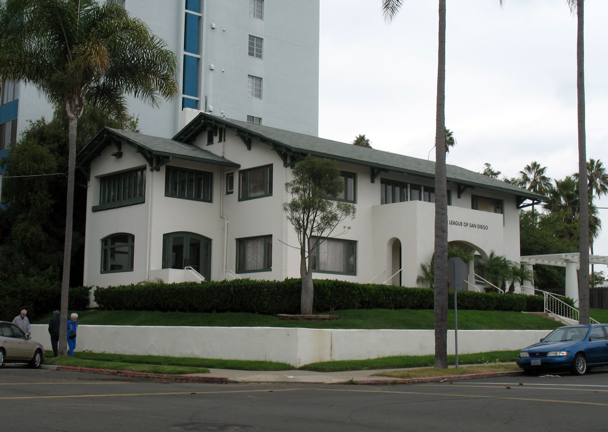 Third Avenue, Bankers Hill, San Diego, California